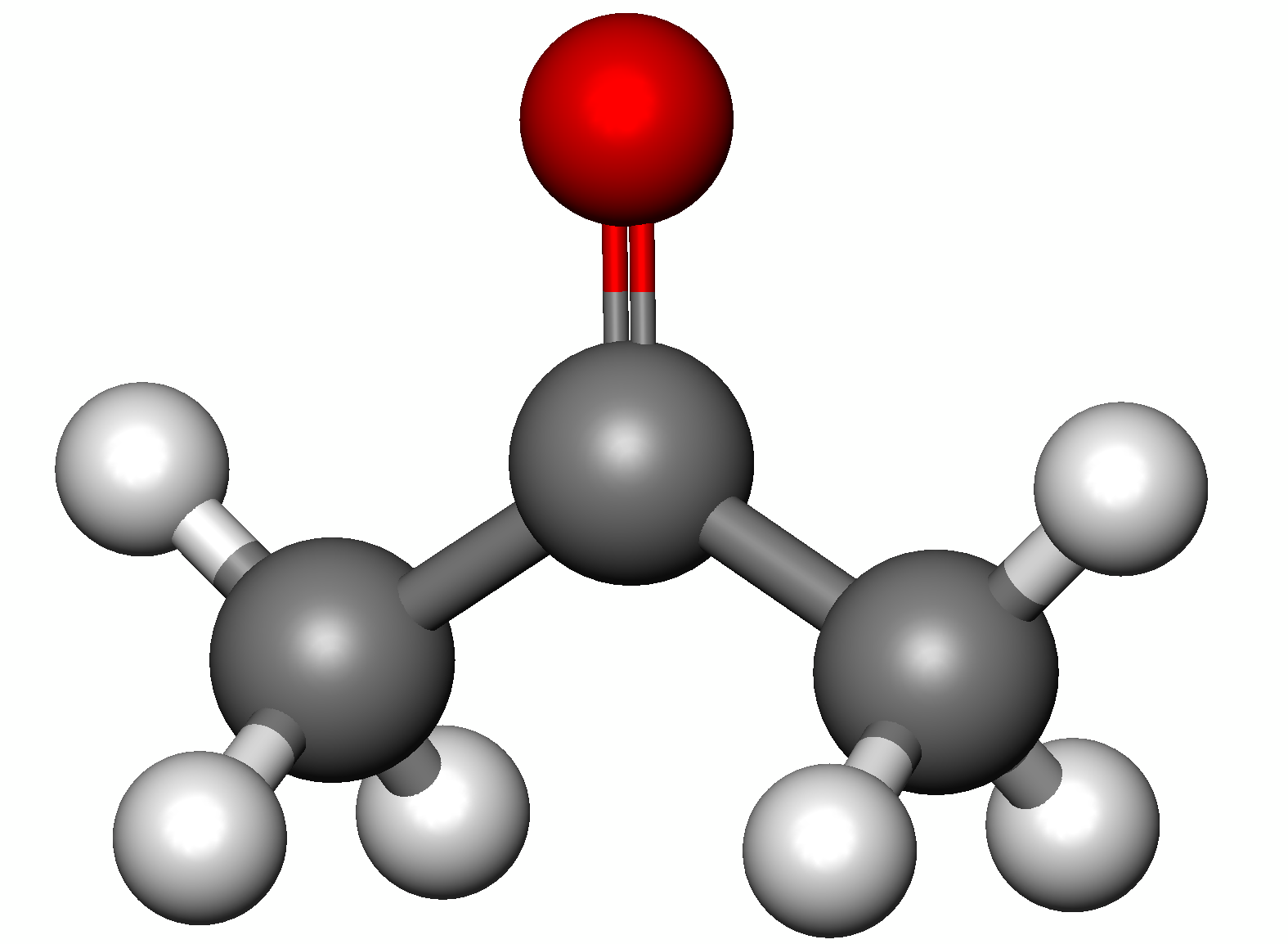 Ball-and-stick model of acetone molecule